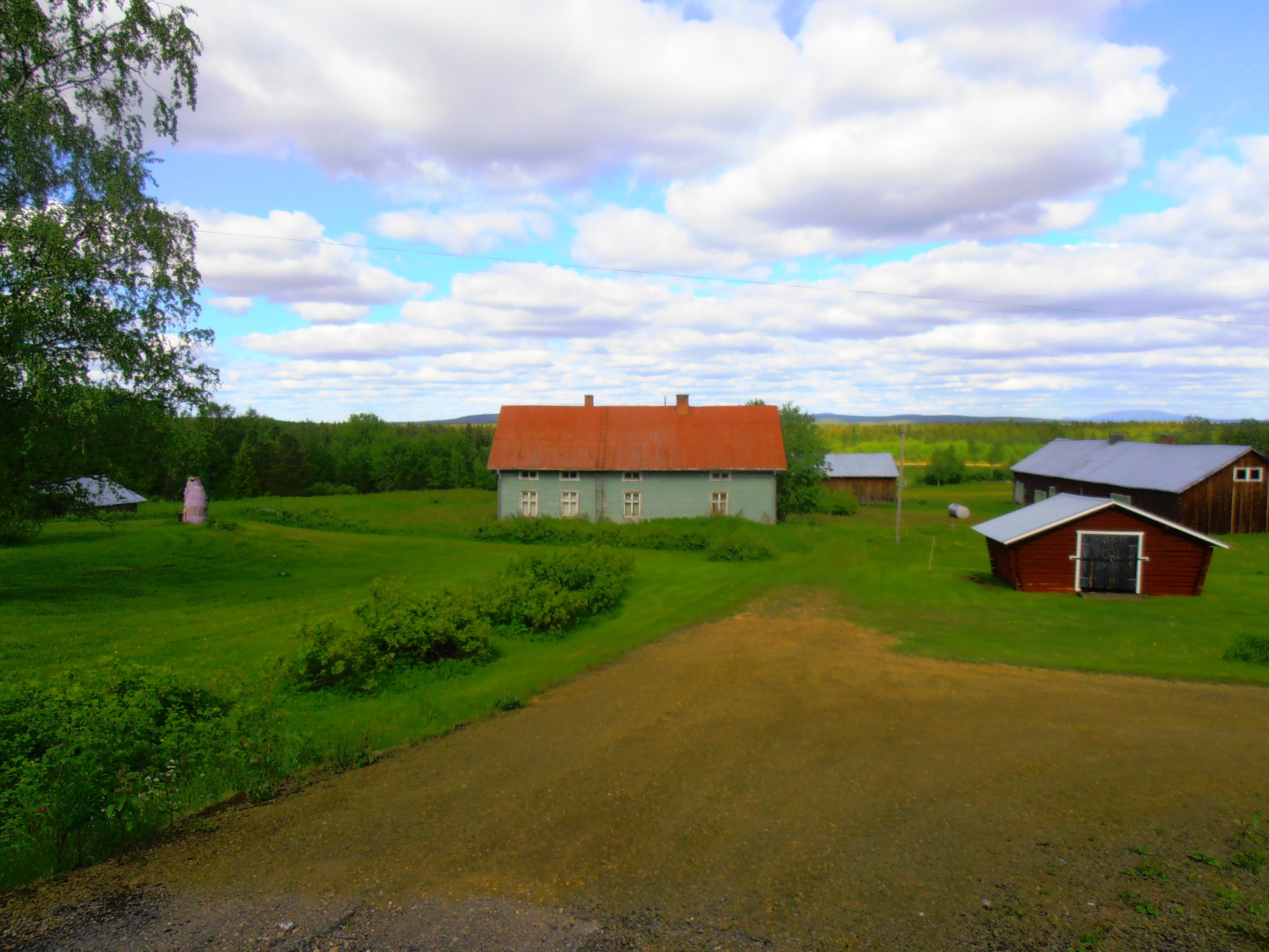 The Blue Farm, Aareavaara, Sweden